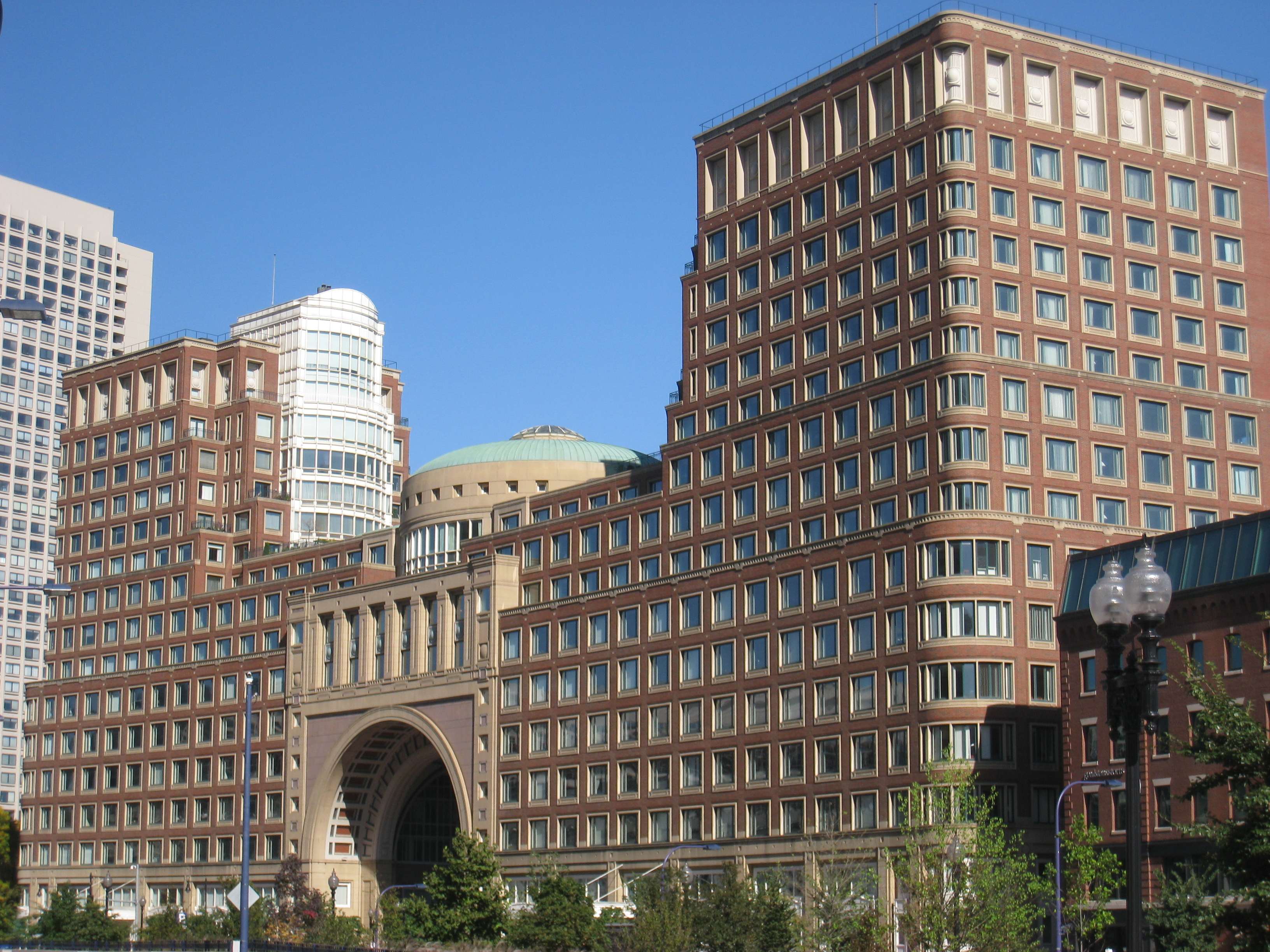 General view of Rowes Wharf, Boston, Massachusetts, USA. I took this photograph.